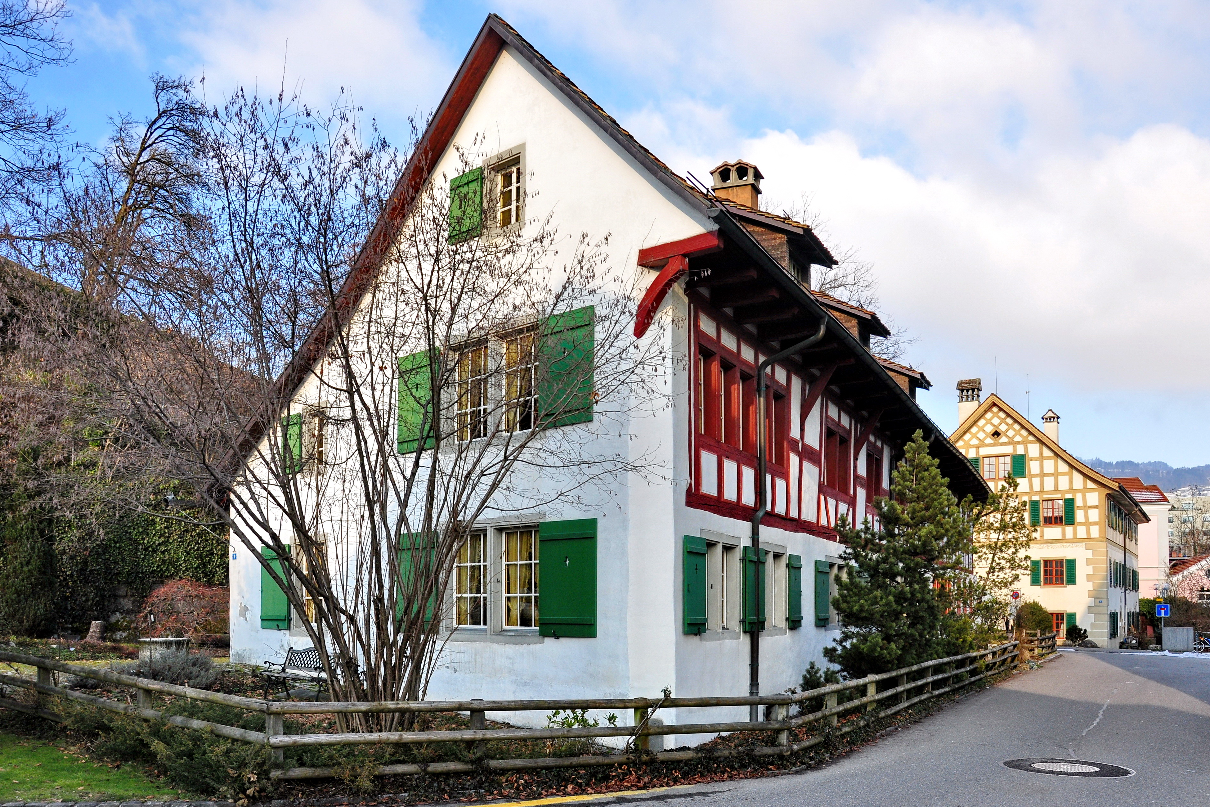 Former Rüti Abbey, Spitzerliegenschaft, the former abbey's stable.